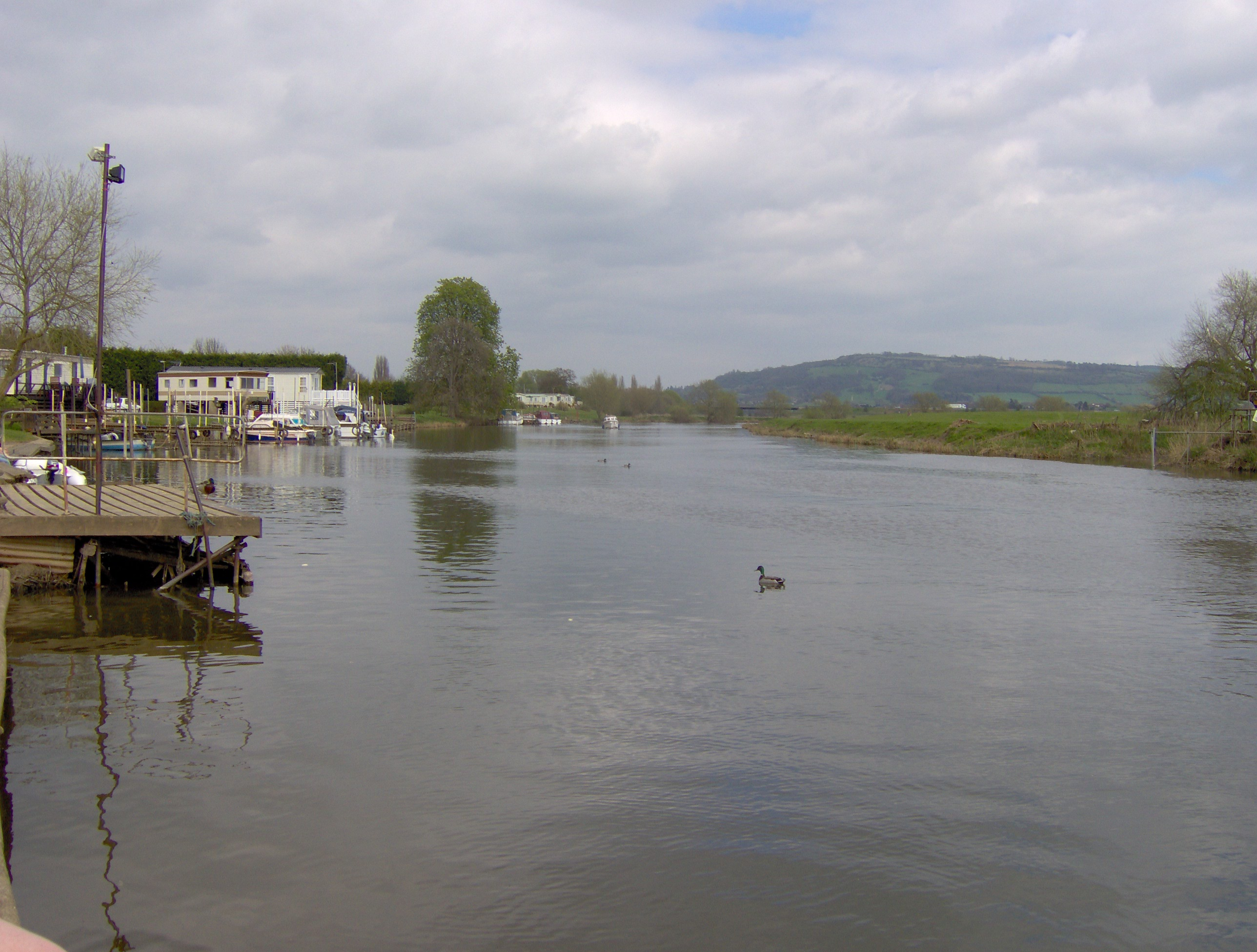 The River Avon, Warwickshire. Taken from the garden of the Fleet Inn, Twyning.